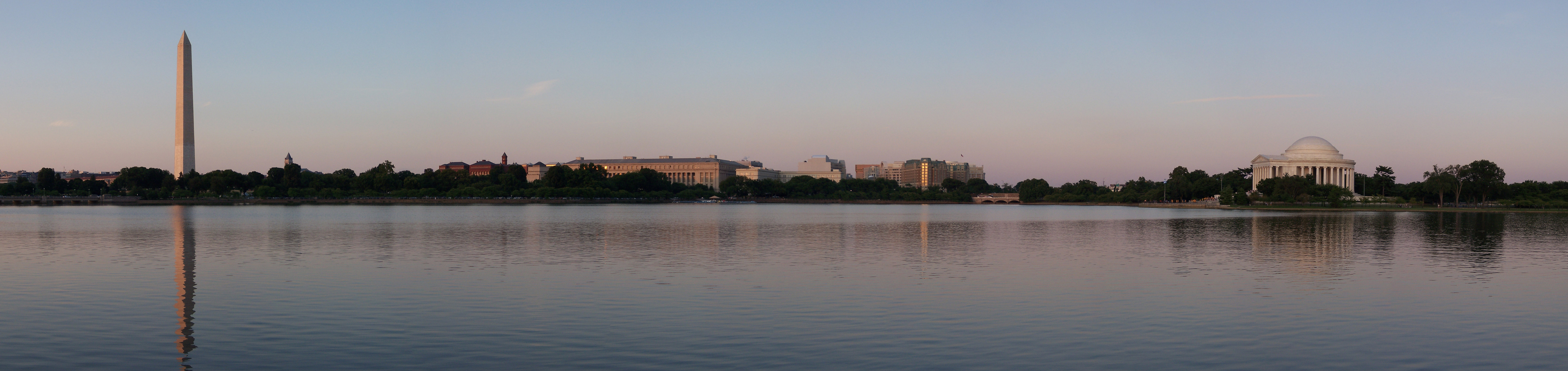 This is a panorama looking across the Tidal Basin in Washington, D.C.. The Washington Monument can be seen to the left and the Jefferson Memorial to the right.